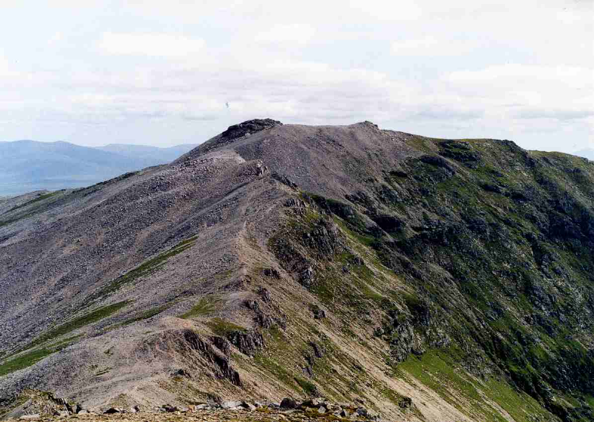 Personal picture taken by Mick Knapton